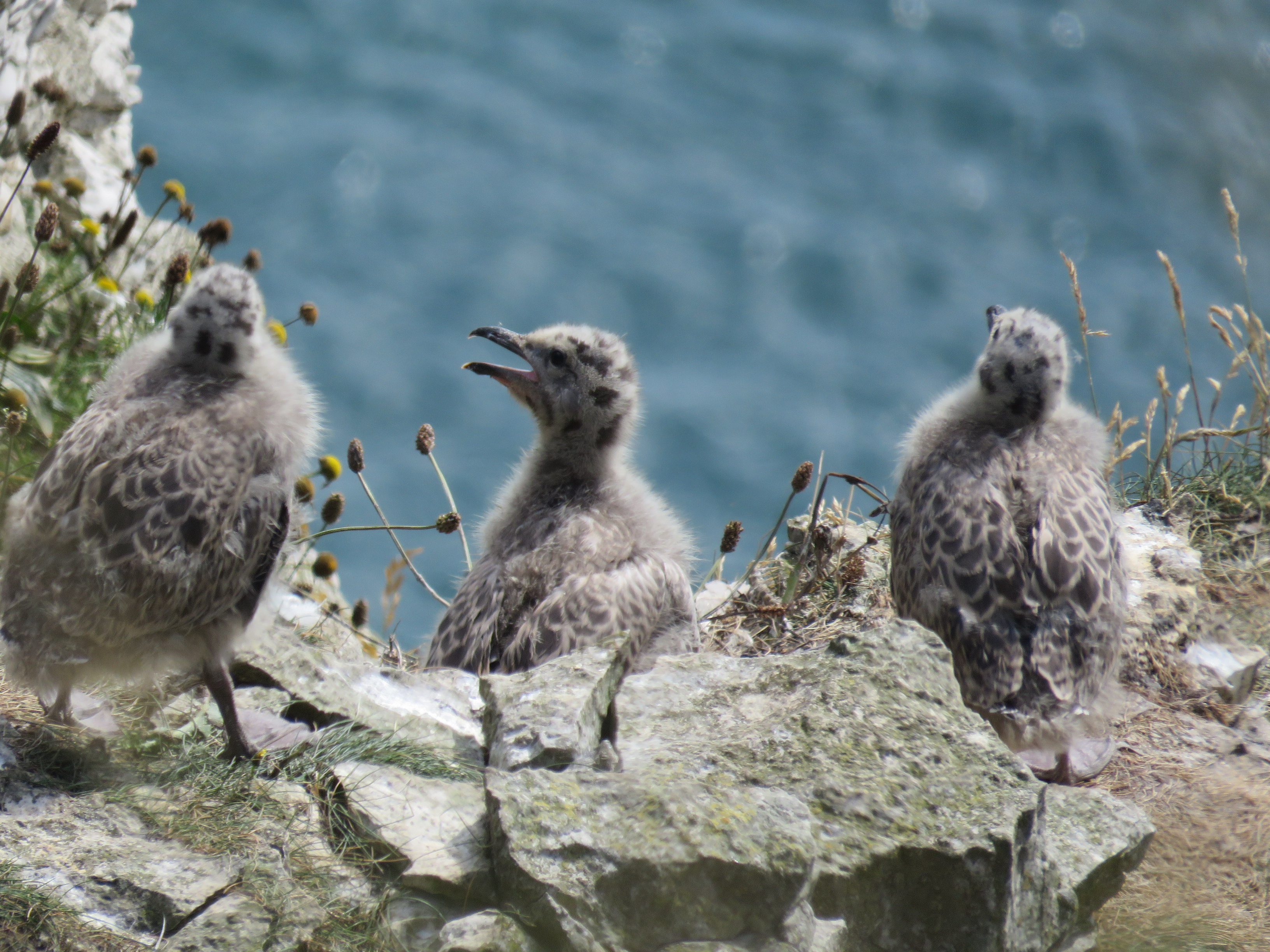 gannet chicks, RSPB Bempton Cliffs